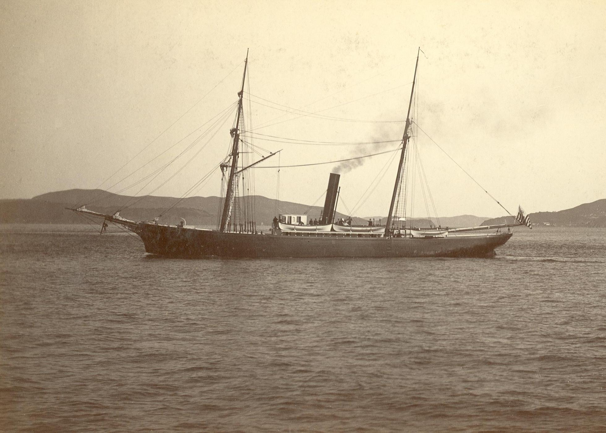 U.S.R.C. "Richard Rush," on her departure Jan. 2d, 1886, in search of the "Amethyst."